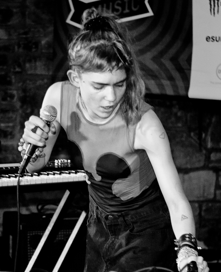 Crop of Grimes by Jared Eberhardt